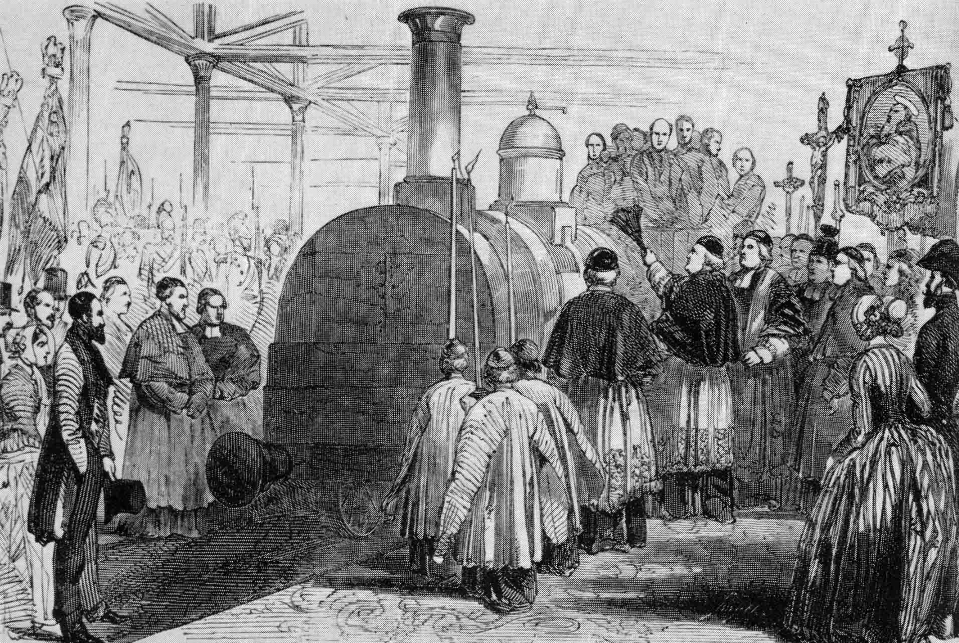 Engraving of the ceremony of the first train line between Paris and le Havre (France)